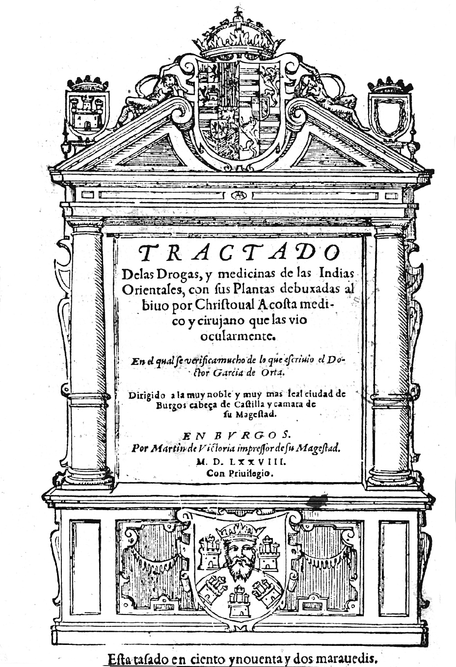 Cover from 1578 spanish edition of "Tractado de las drogas y medicinas de las Indias Orientales", by Cristóbal Acosta.